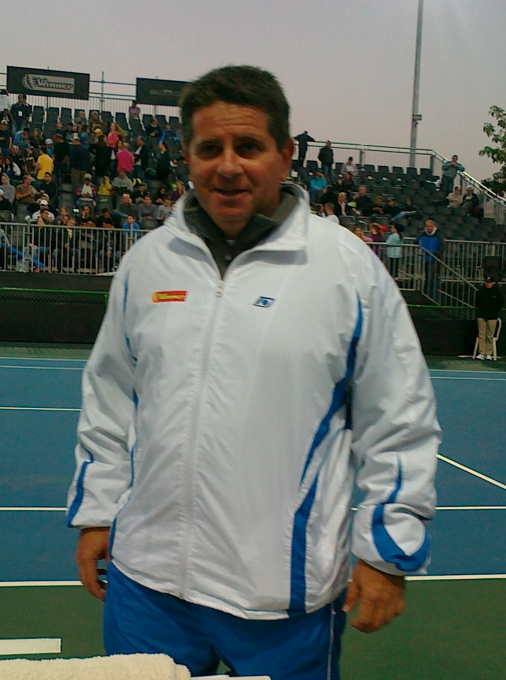 Amos Mansdorf, at Fed Cup, Eilat, Israel 2013